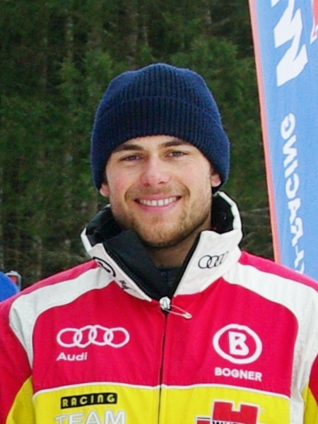 German alpine skier Philipp Schmid at the prize giving ceremony of the FIS-Slalom in Hinterstoder, Austria, on 10 March 2010.